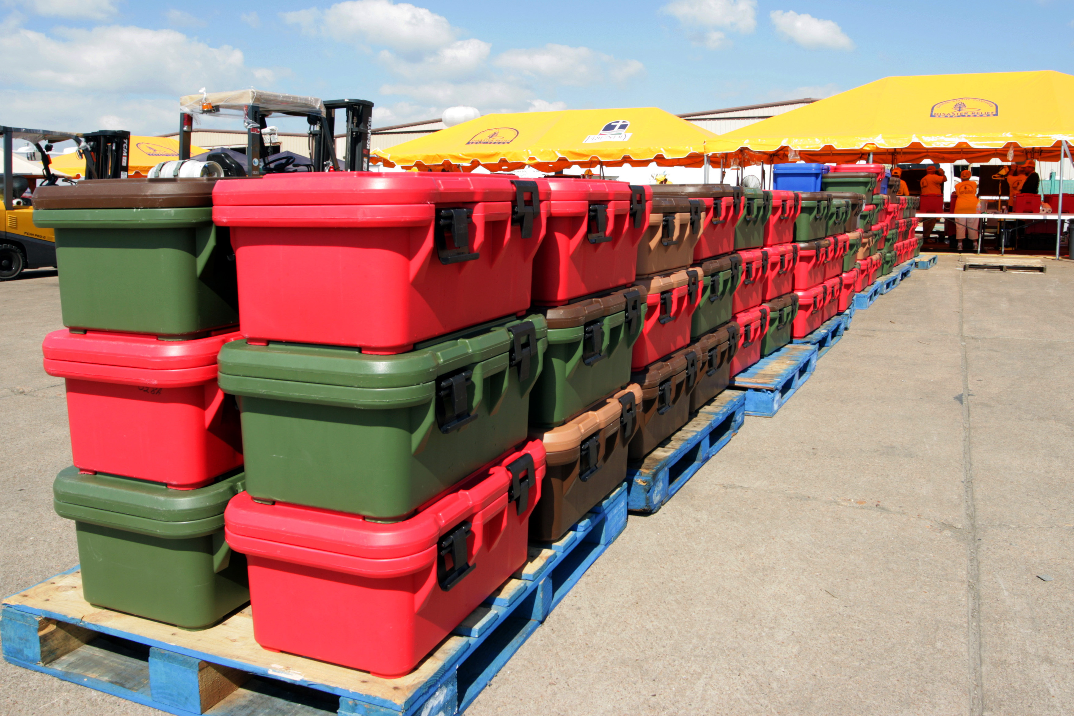 Galveston, TX, October 10, 2008 -- Insulated food storage containers called "Cambros" are lined up for loading onto Red Cross ERVs and Salvation Army canteens, which will distribute them throughout Galveston. Over 30,000 meals are delivered daily. FEMA photo by Greg Henshall